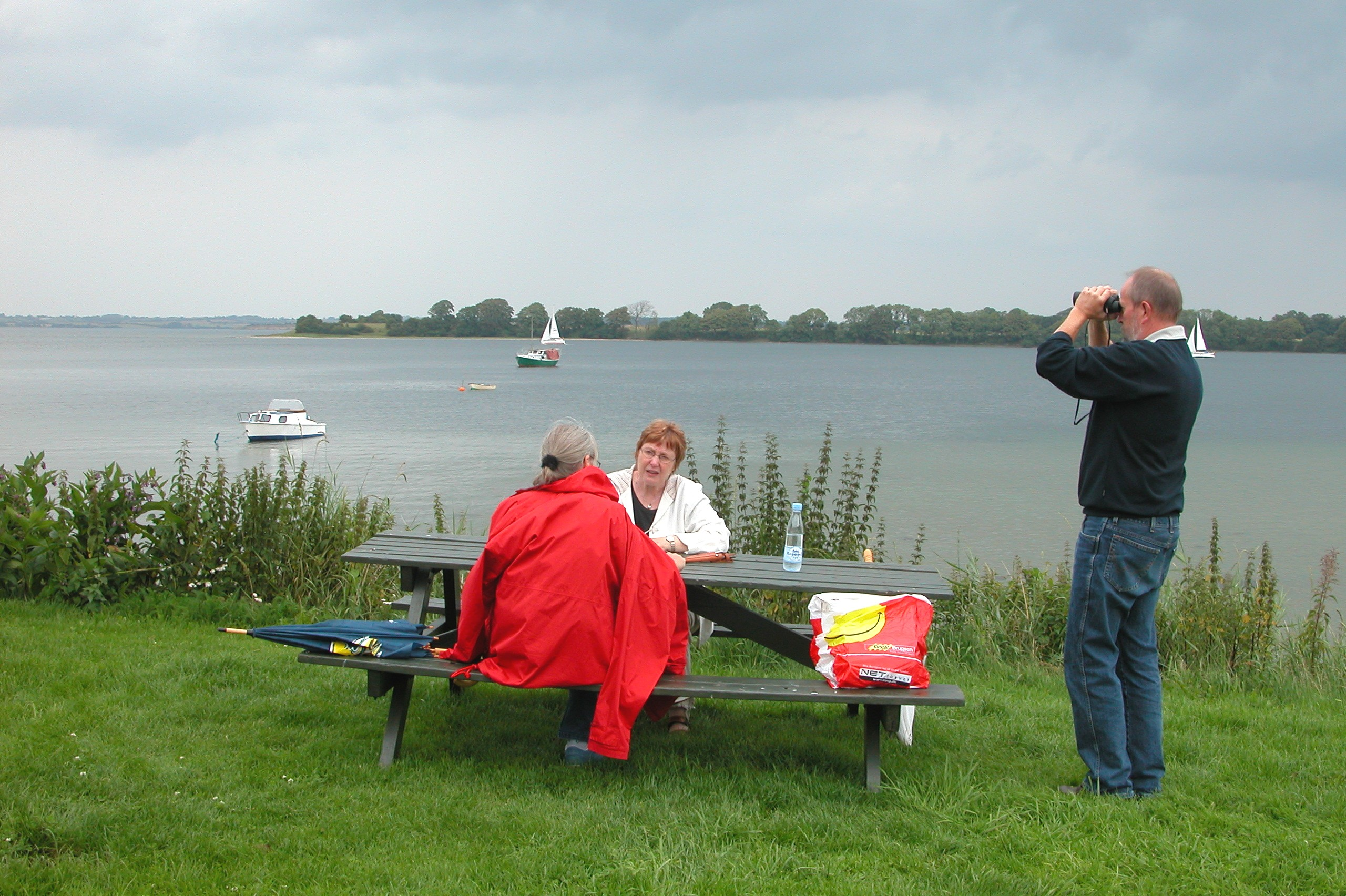 Sottrupskov - Denmark